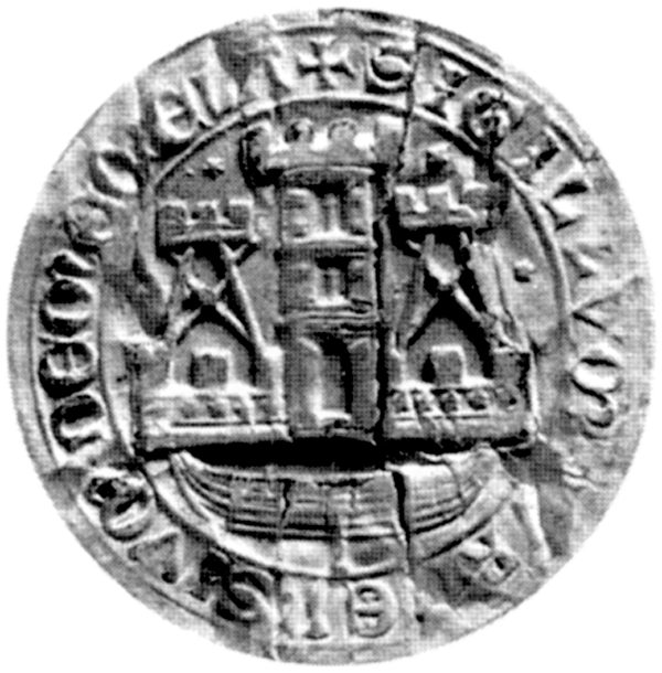 A seal of Klaipėda city (1916). Diameter 75 mm